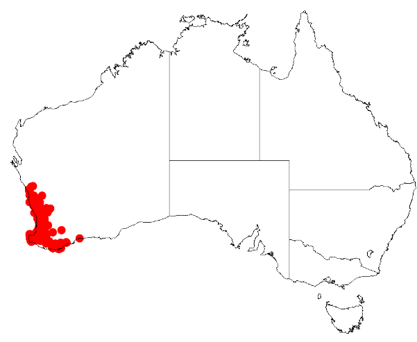 Scaevola glandulifera occurrence data downloaded from Australasian Virtual Herbarium 12 May 2019